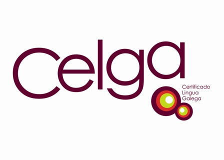 CELGA logo.